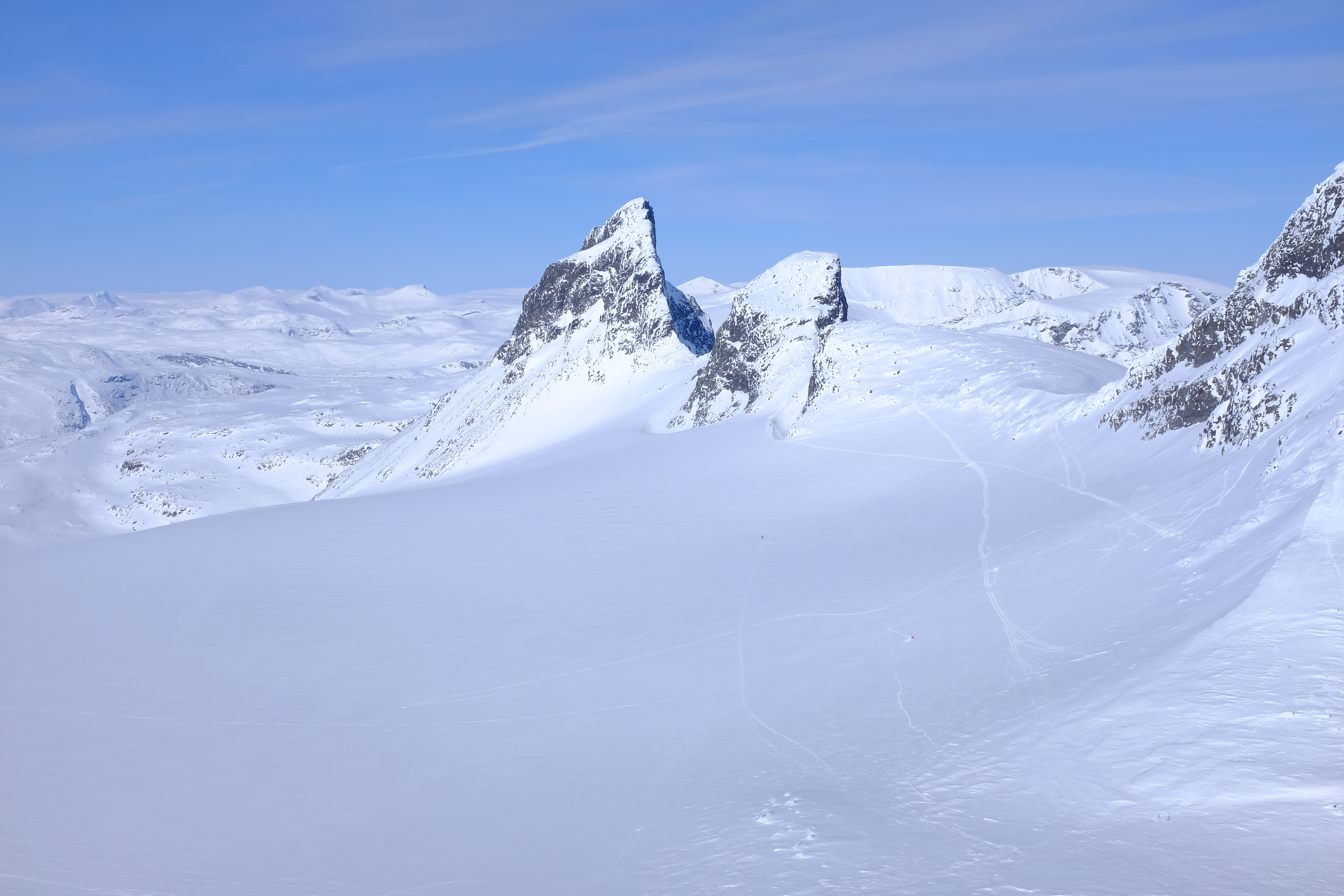 Store Smørstabbtinden and Kniven mountains in Jotunheimen Nasjonal Park, Lom, Oppland, Norway. Picture taken from Bjørneskardet mountain pass. "Kniven" literally means "the knife". It is part of the mountain chain Smørstabbtindan.